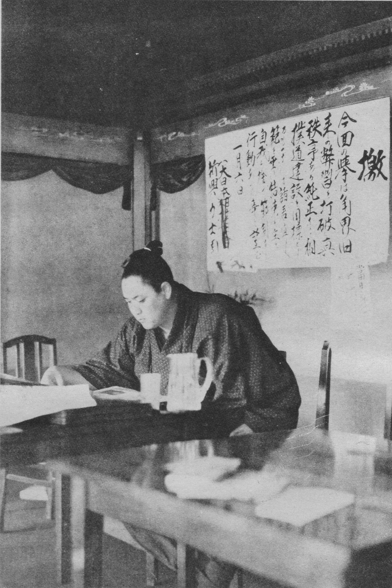 Tenryū Saburō in Shunjuen Incident (It happened in 1932, seeking to improve the treatment, withdrawal turmoil centered on the Sumo Wrestlers of Dewanoumi stable.